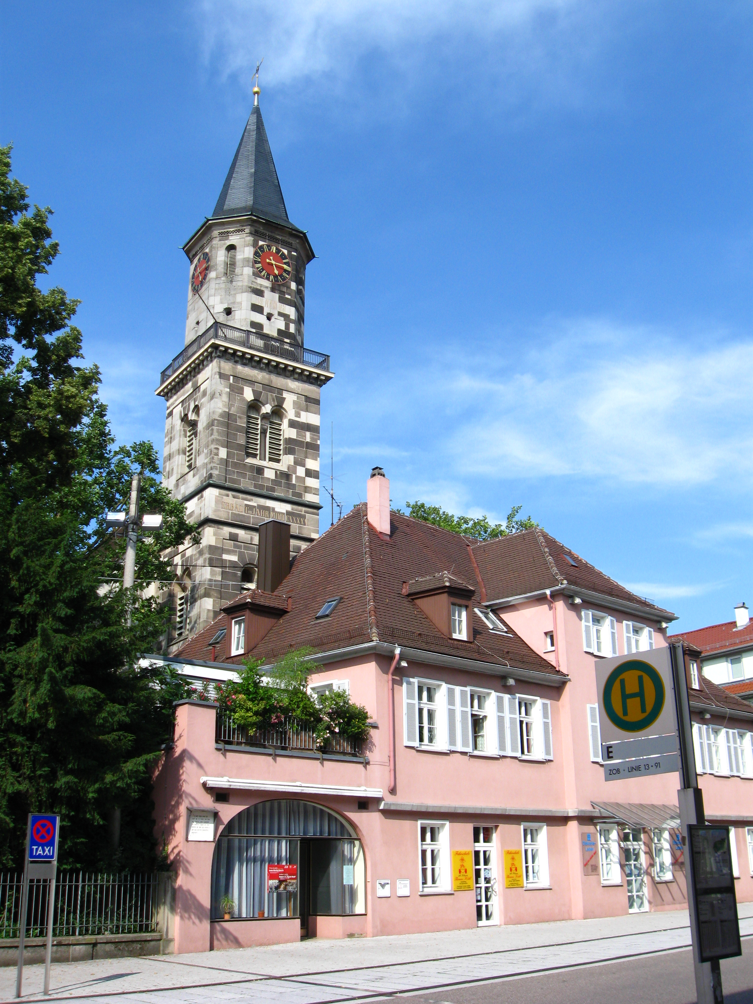 Centre of Göppingen, Germany.